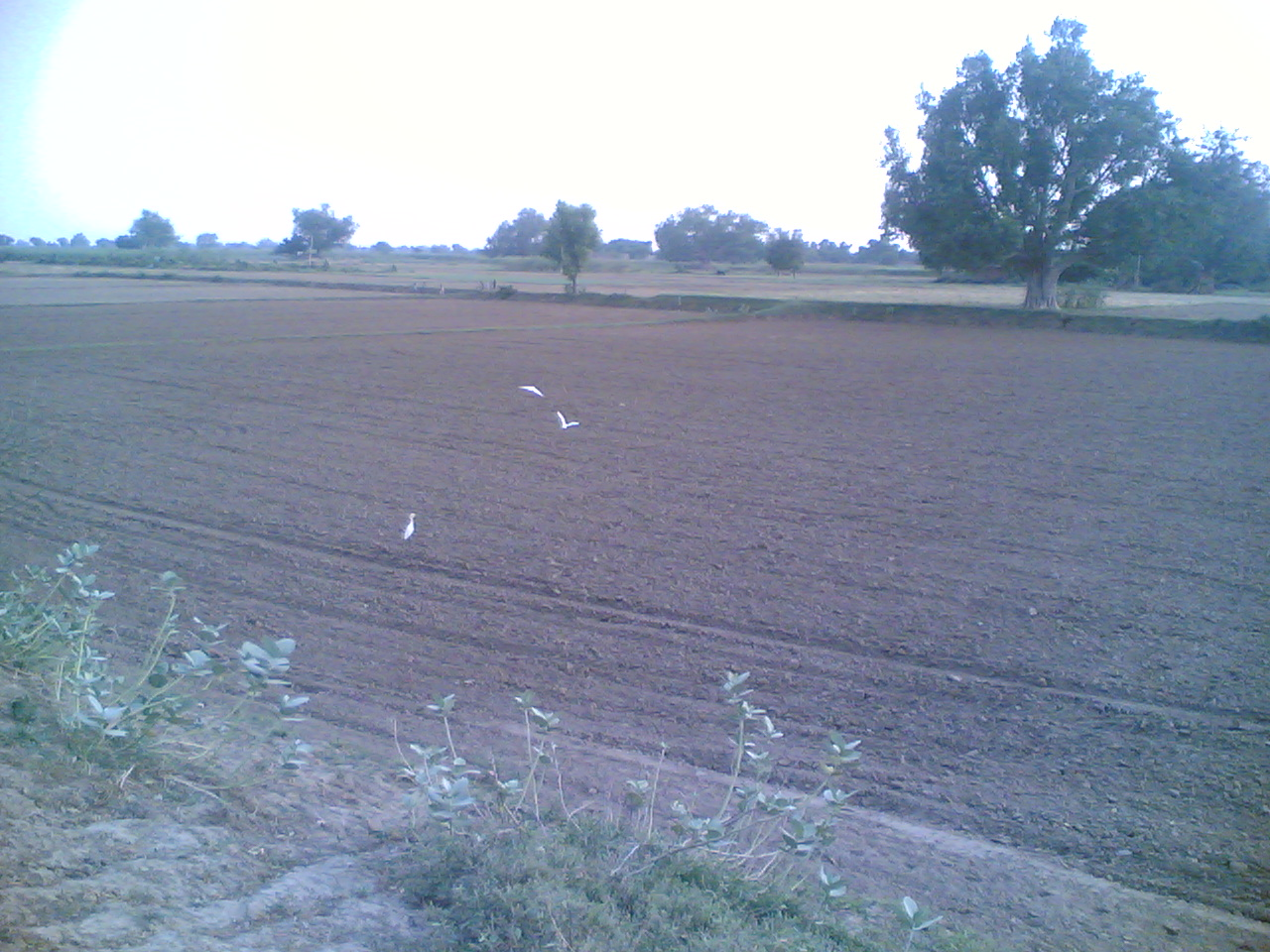 This is a photo of fields of village Tusari shooted from the dam nearby to this village.